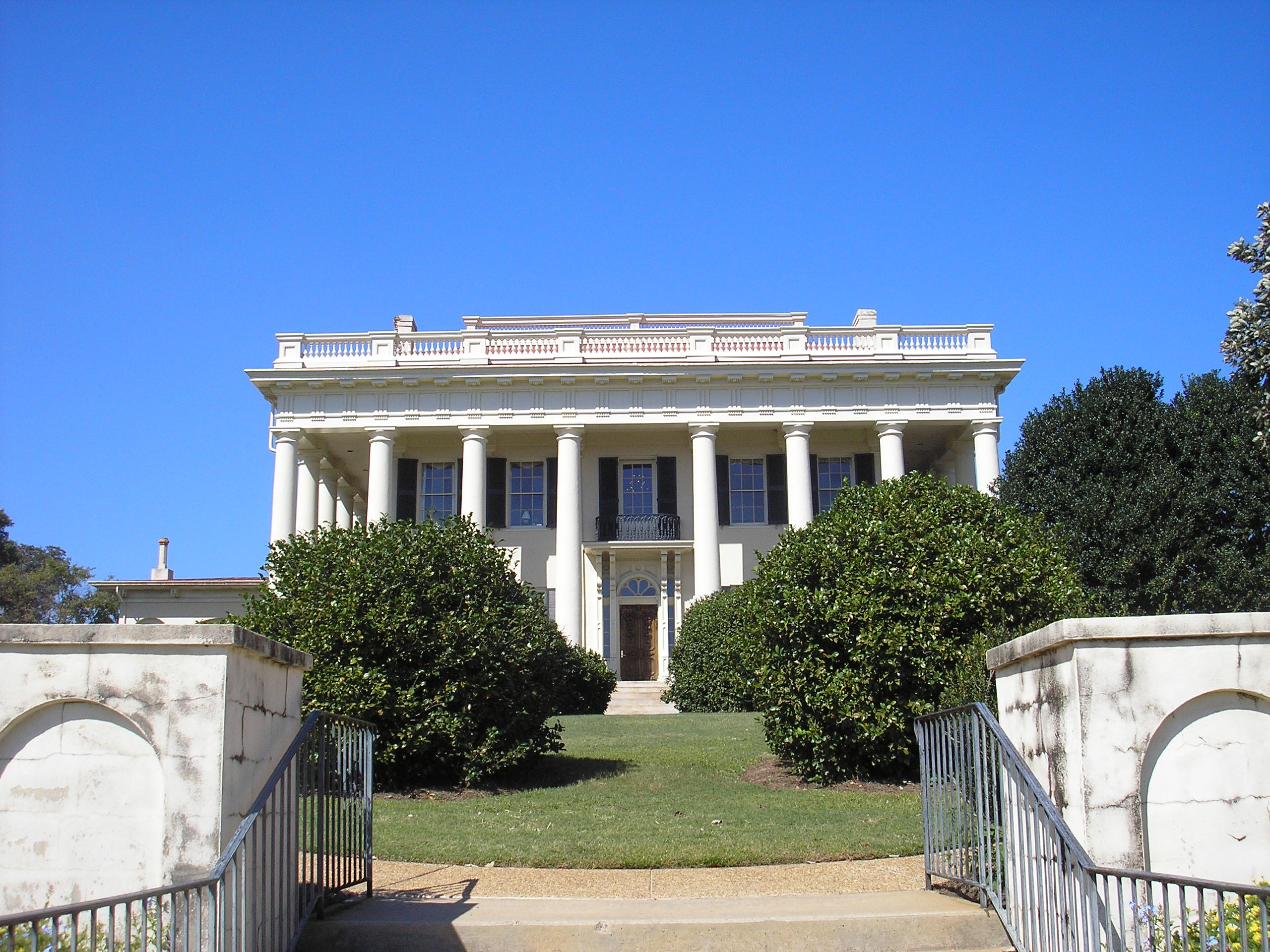 A National Registered Historic Site located in Macon, Bibb County, Georgia at 988 Bond Street. This is now known as the Cowles-Bond House and is owned by Mercer University. A magnificent view of the city can be enjoyed from this house on Coleman Hill.